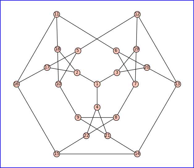 Lou2=copy(lou1) lou2.delete_edge(5,6); lou2.delete_edge(11,12); lou2.add_edge(5,12); lou2.add_edge(11,6)